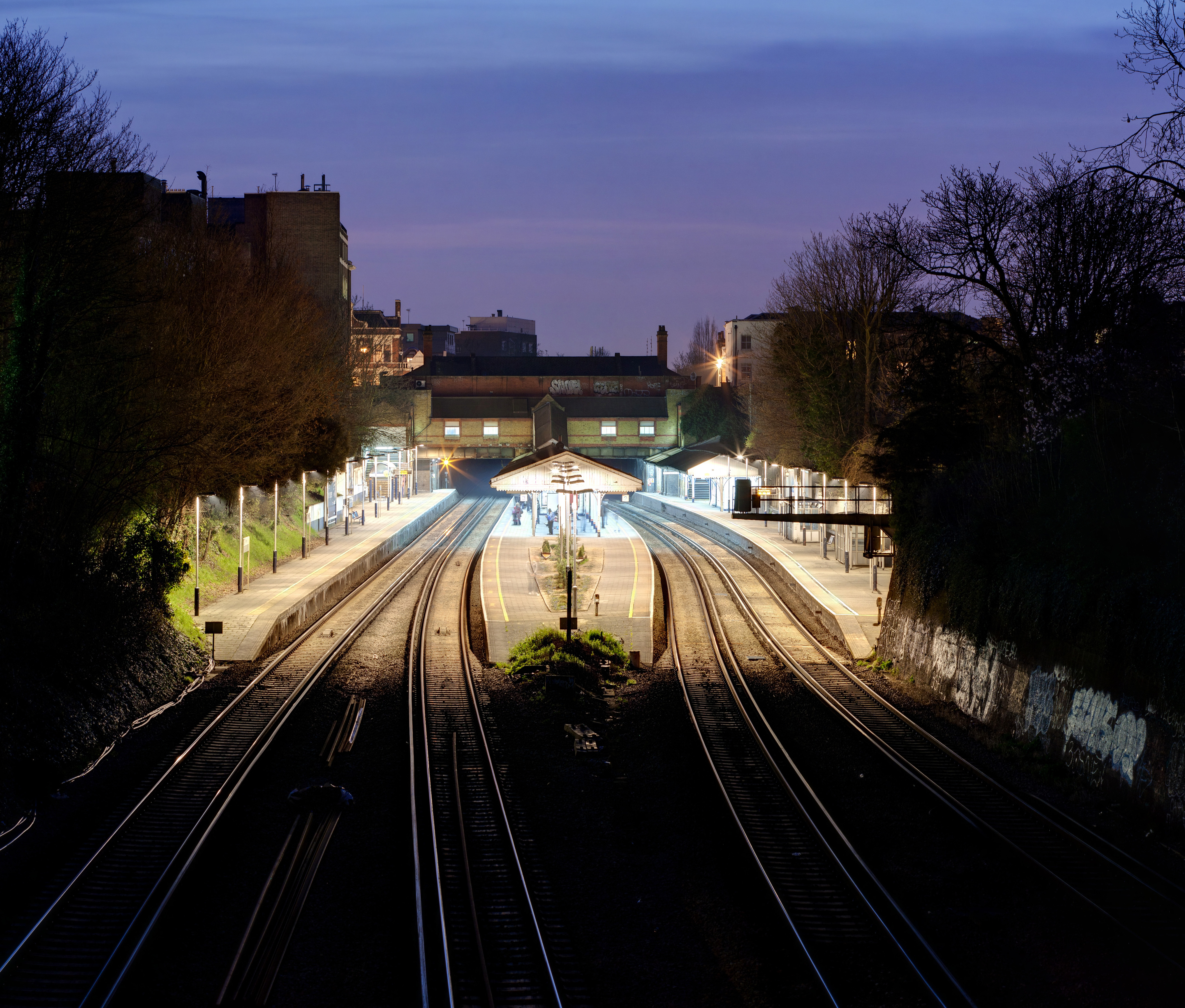 Putney Railway Station as viewed from the overpass on Oxford Road, Putney, London. This is a bracketed exposure blended panorama of 3 x 2 images.